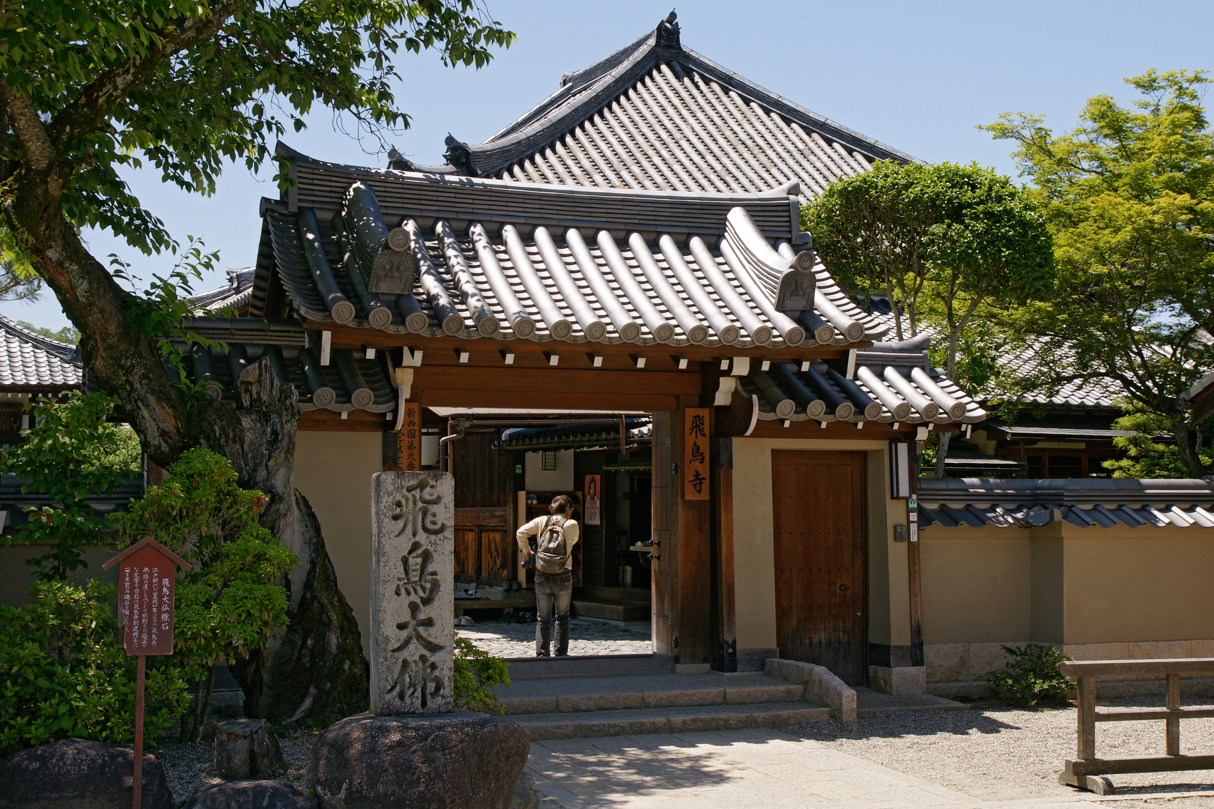 Asuka-dera in Asuka, Nara Prefecture, Japan.